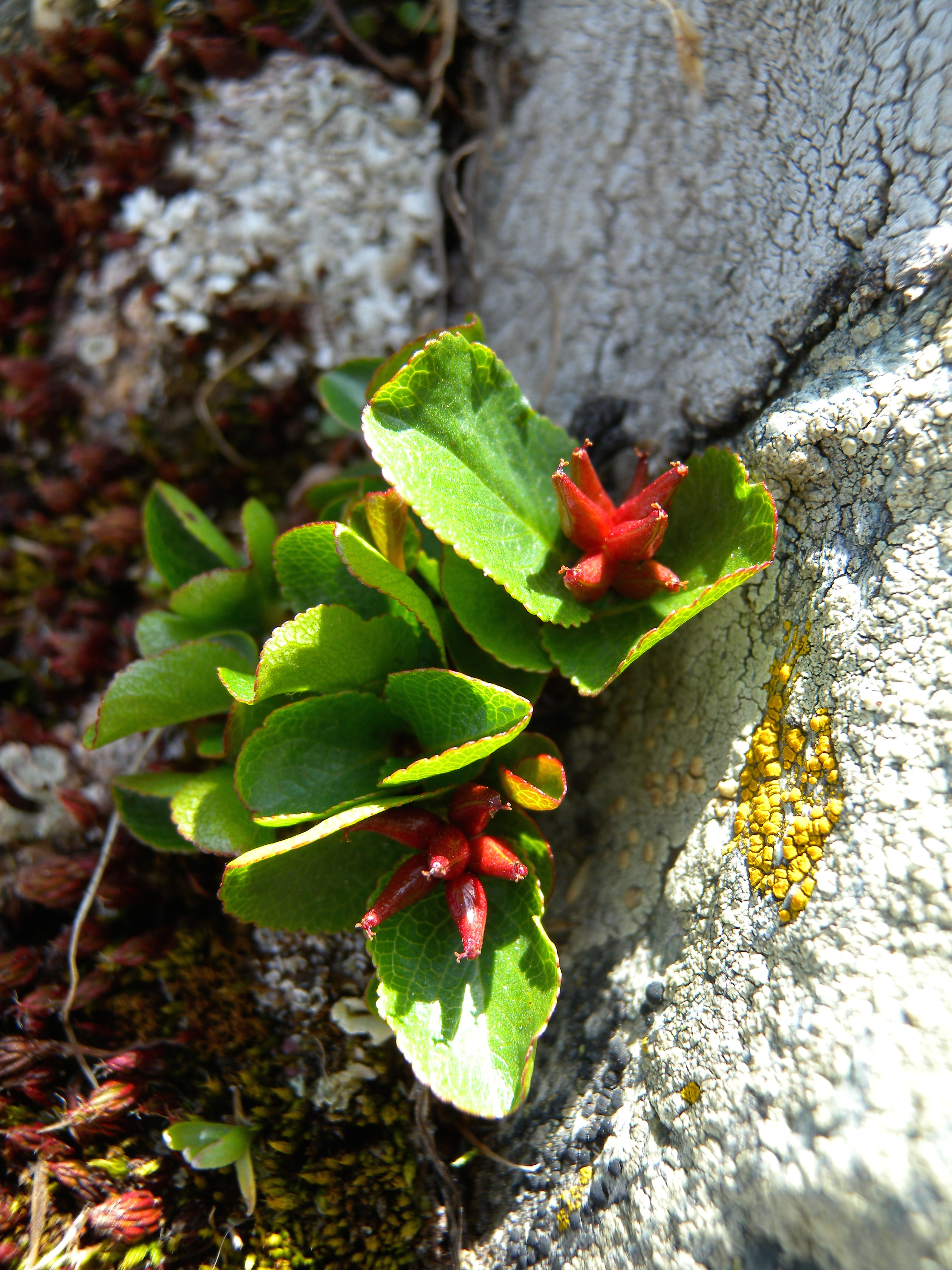 Female Salix herbacea (Salicaceae); Arolla, Canton of Valais, Switzerland